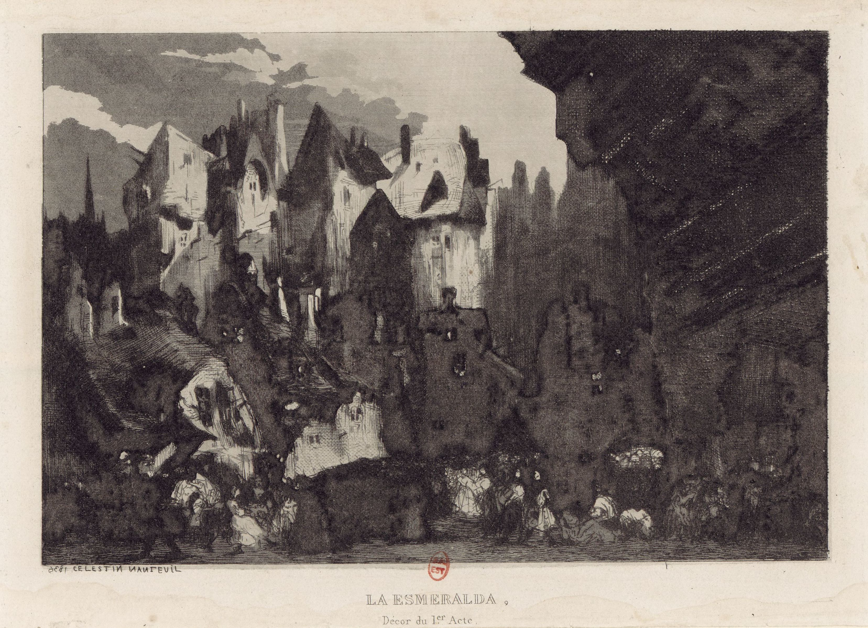 Set design for Louise Bertin's fourth and final opera, La Esmeralda, by Célestin Nanteuil after the original design by Charles Cambon (See File:Esmeralda Act 1 set by Cambon.jpg)